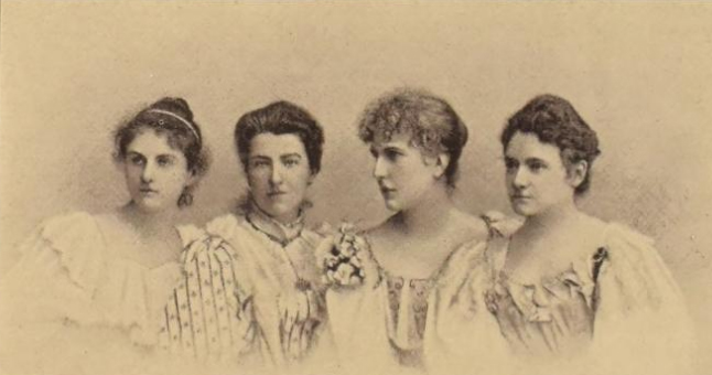 Marie Soldat-Röger's string quartet: Ella Finger-Bailetti, Natalie Bauer-Lechner, Lucy Campbell, Marie Soldat-Röger